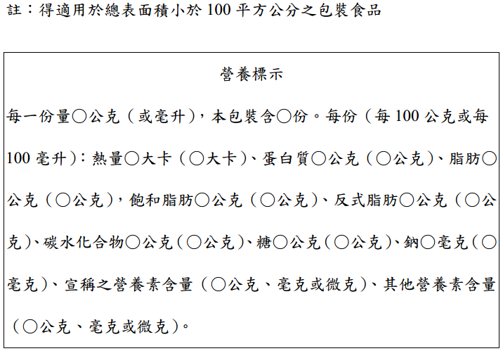 Nutrition facts label format 1-2 of Taiwan